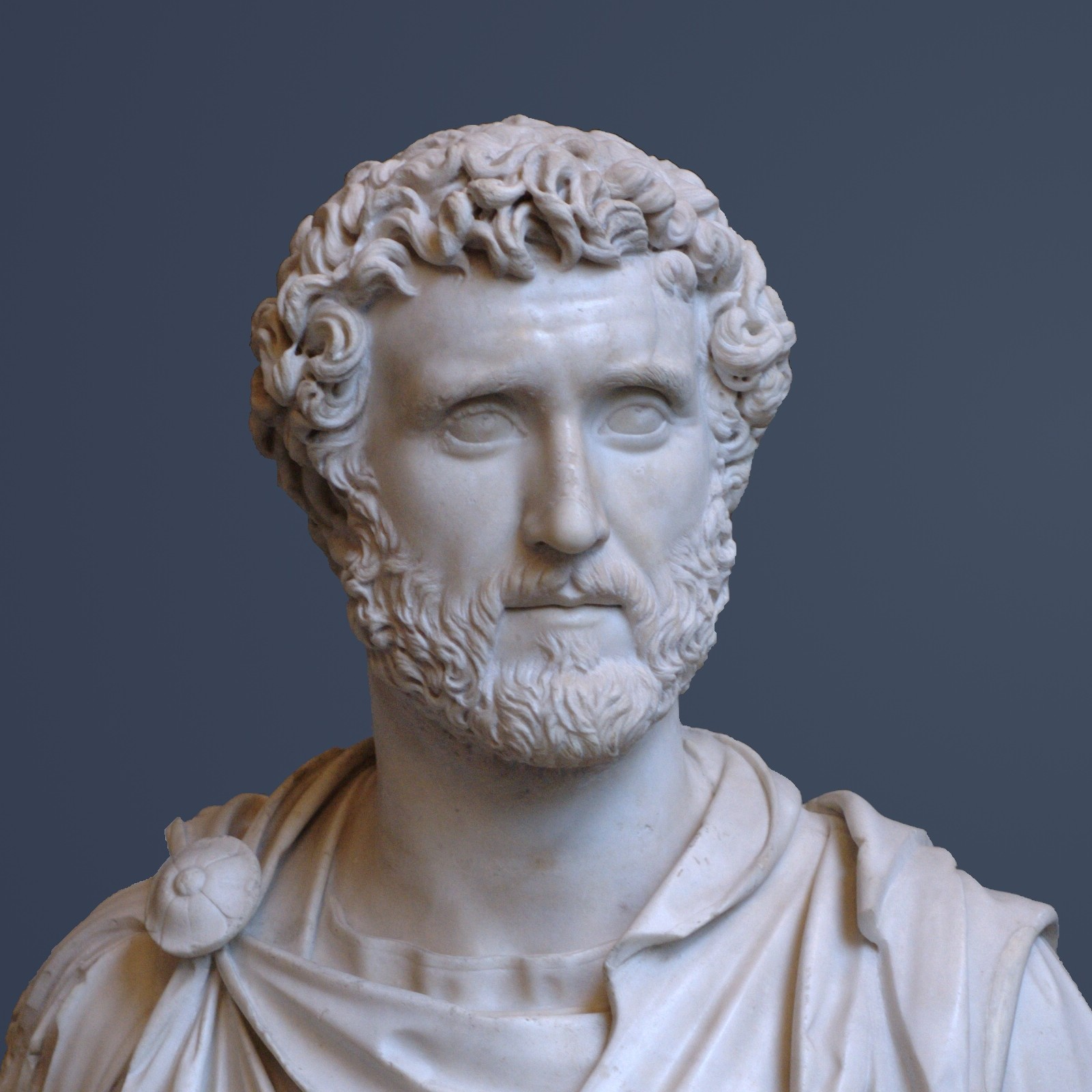 Bust of Antoninus Pius (reign 138–161 CE), ca. 150.